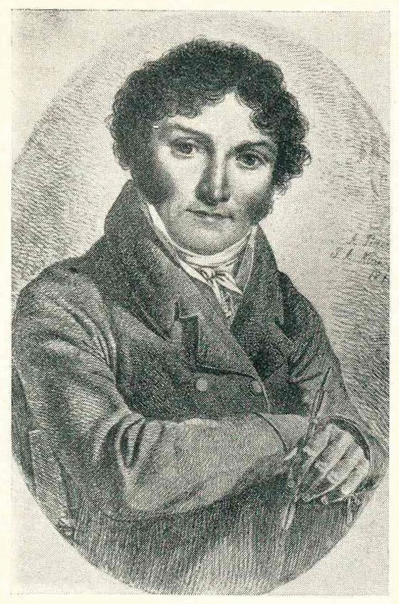 Portret J.G. Mansfeld, Johann Adam Klein (1792-1875), 1815